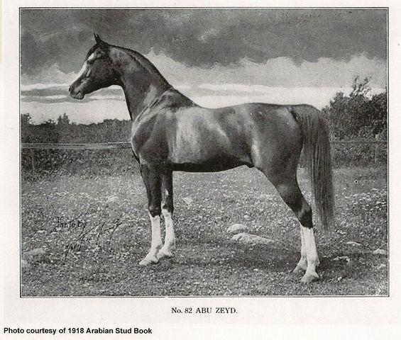 Abu Zeyd, Arabian stallion bred by Crabbet Park Stud in England, imported to USA by Homer Davenport, later owned by William Robinson Brown